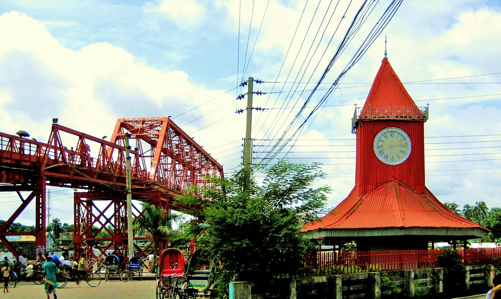 Ali Amjad's Clock beside Keane Bridge is over Surma River, Sylhet, Bangladesh.